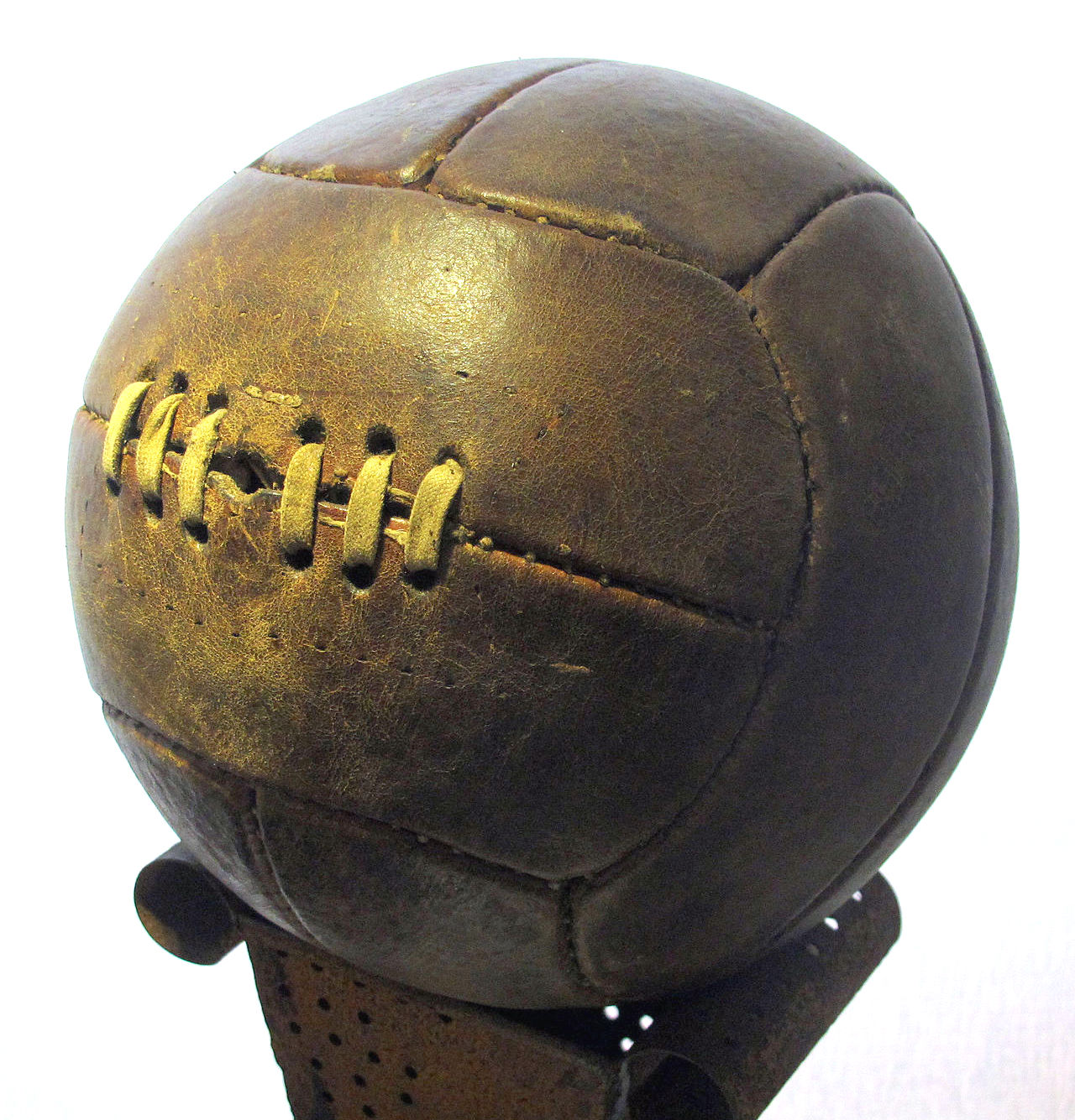 Collections of the Museo del Calcio (Florence)